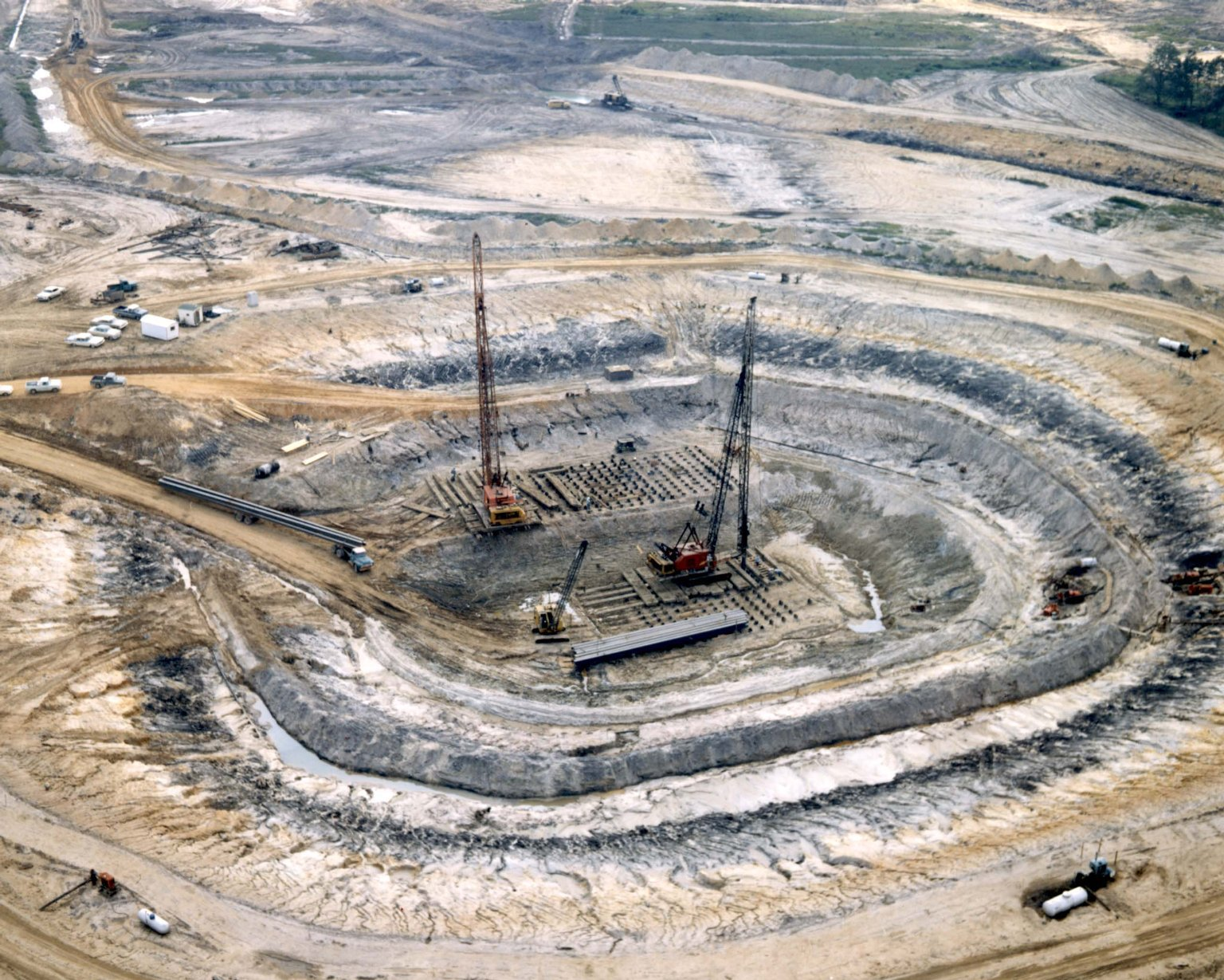 Collection: Stennis Space Center Collection Title: Building a Test Stand Creator: NASA/Stennis Space Center Description: An enormous crater marks the site where the A-2 test stand was being built in 1964 at the Mississippi Test Operations. Date: 1/1/64 Identifier: 64-652c Image ID: 133821 SOURCE: Visit for the most comprehensive compilation of NASA stills, film and video, created in partnership with Internet Archive.